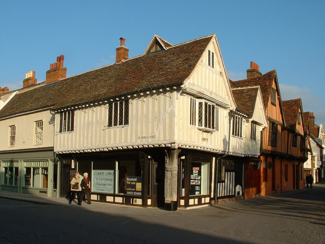 45 and 45A St Nicholas Street, Ipswich, Suffolk: a 15th-century timber-framed building at the junction with Silent Street. On the building is a plaque to mark near this spot a home of Cardinal Wolsey – see 190238